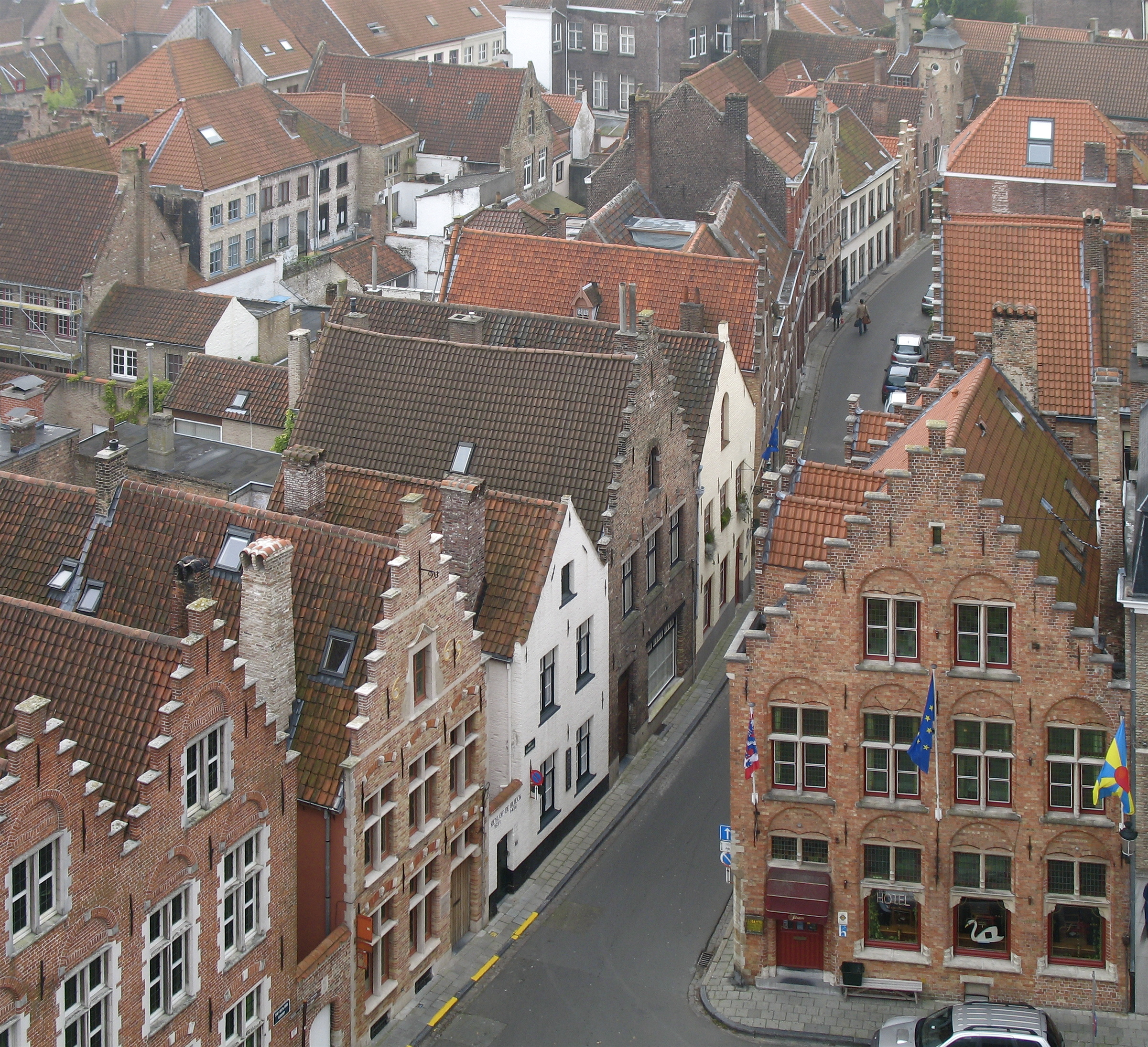 The roofs of Bruges (Belgium)